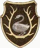 Coat of arms of the former imperial abbey of Burtscheid, Germany